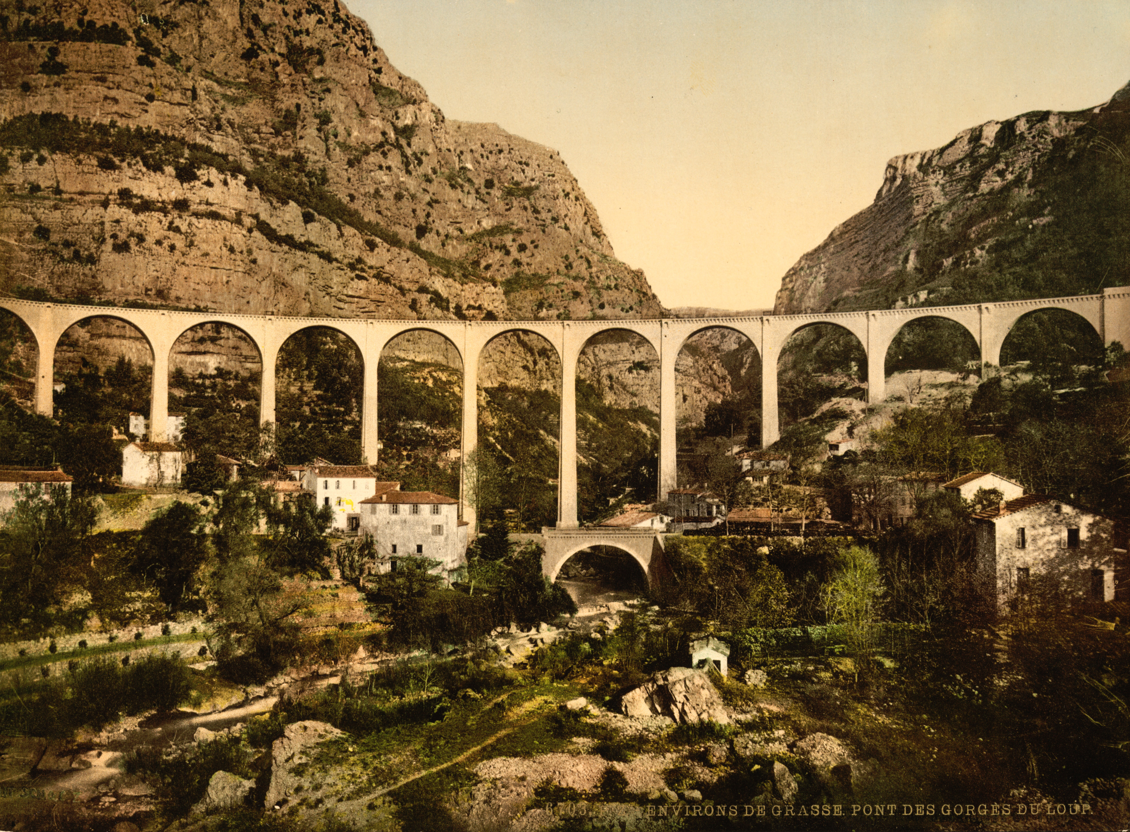 Old Central Railway Var. Bridge was destroyed by retreating German troops when on August 24, 1944. Only the pillars remain.